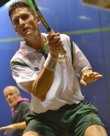 Craig van der Wath at the World Masters 2012